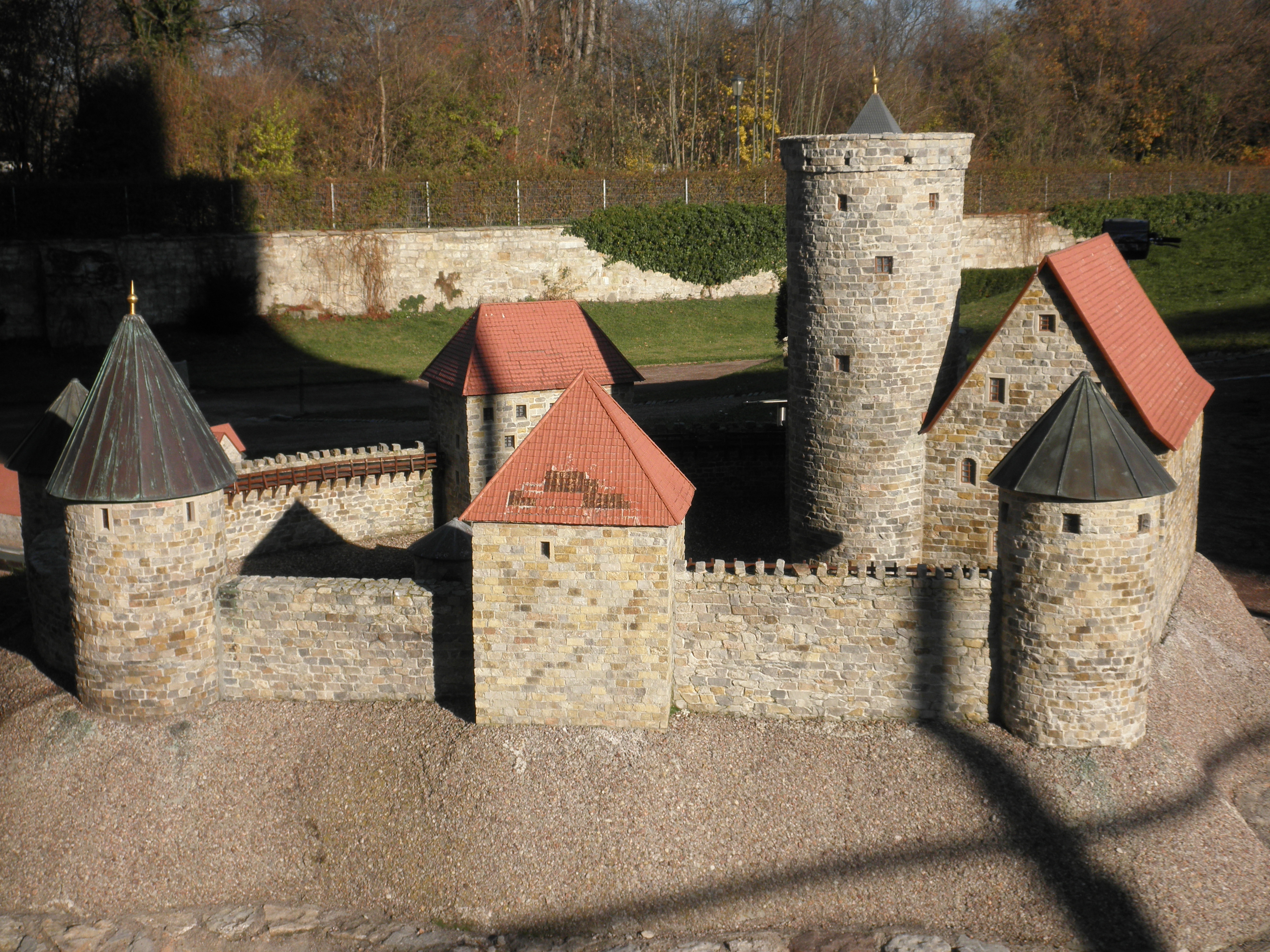 Former Castle Käfernburg in Thuringia